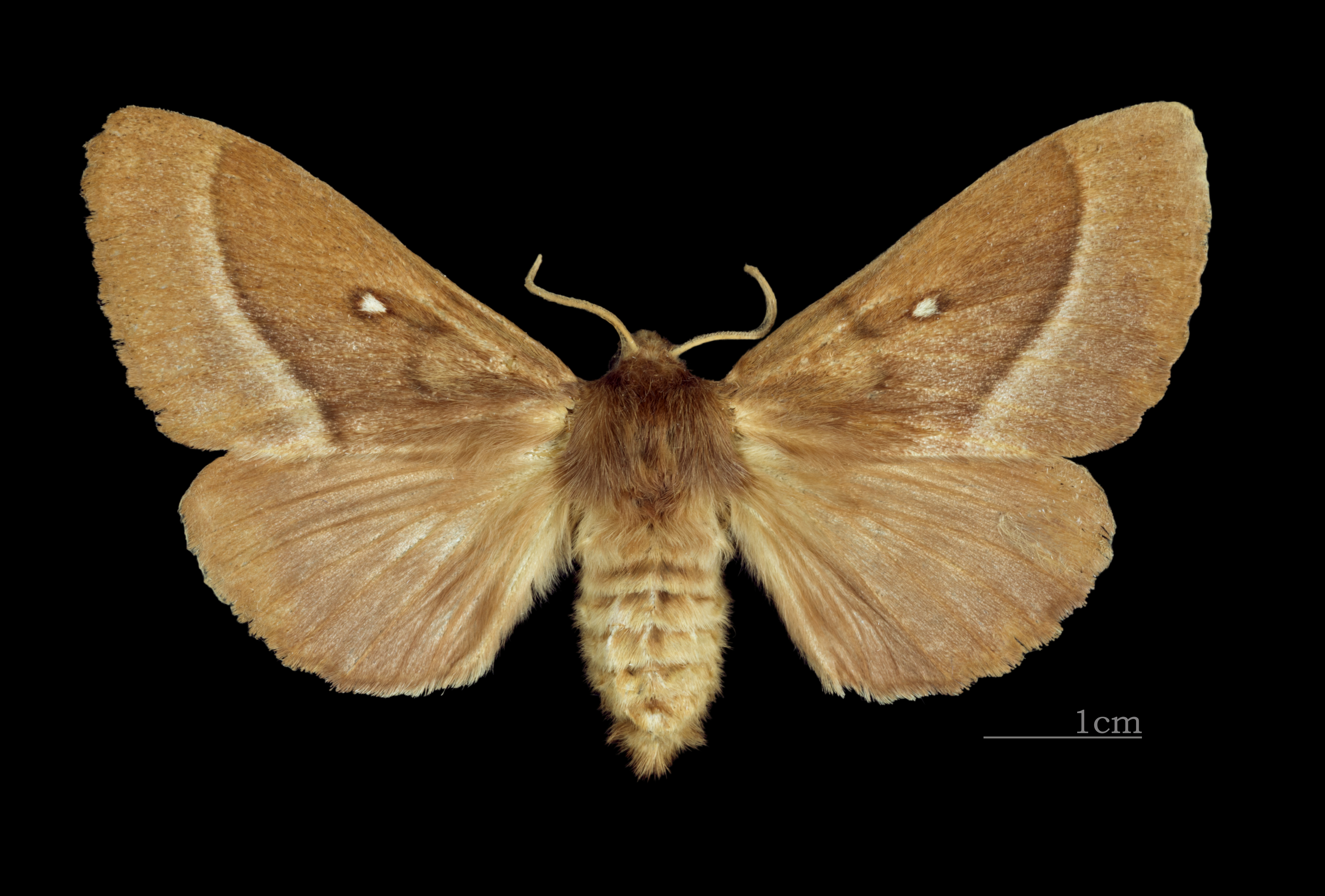 Grass Eggar - Two views of same specimen